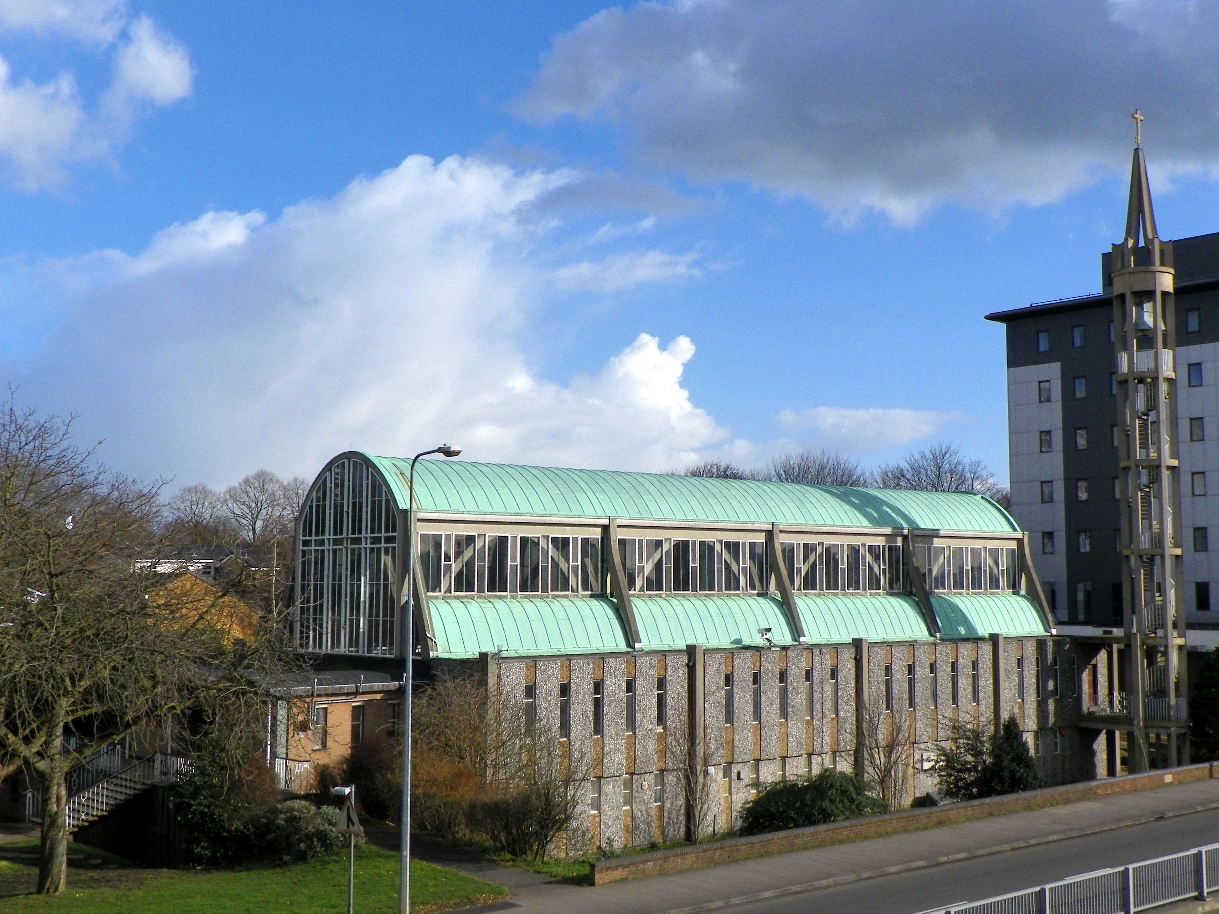 Parish Church of St Andrew and St George, Stevenage, Hertfordshire